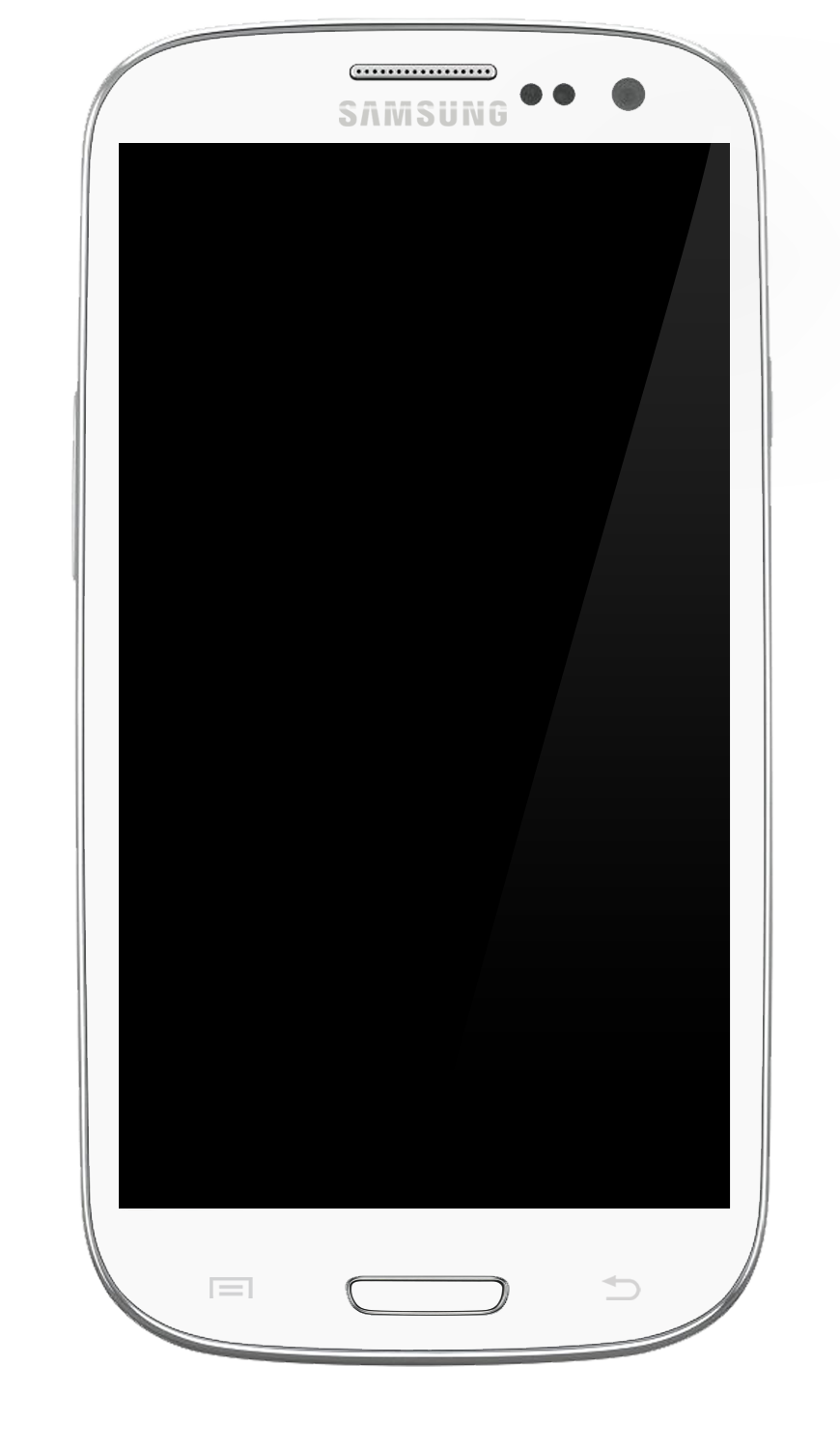 Samsung Galaxy S III render